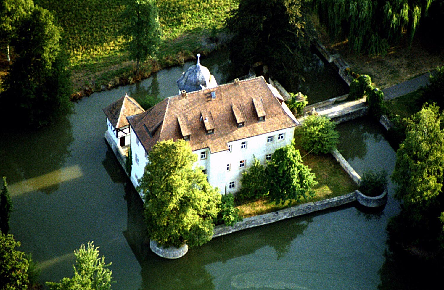 Kleinbardorf from a ballon c. 2004